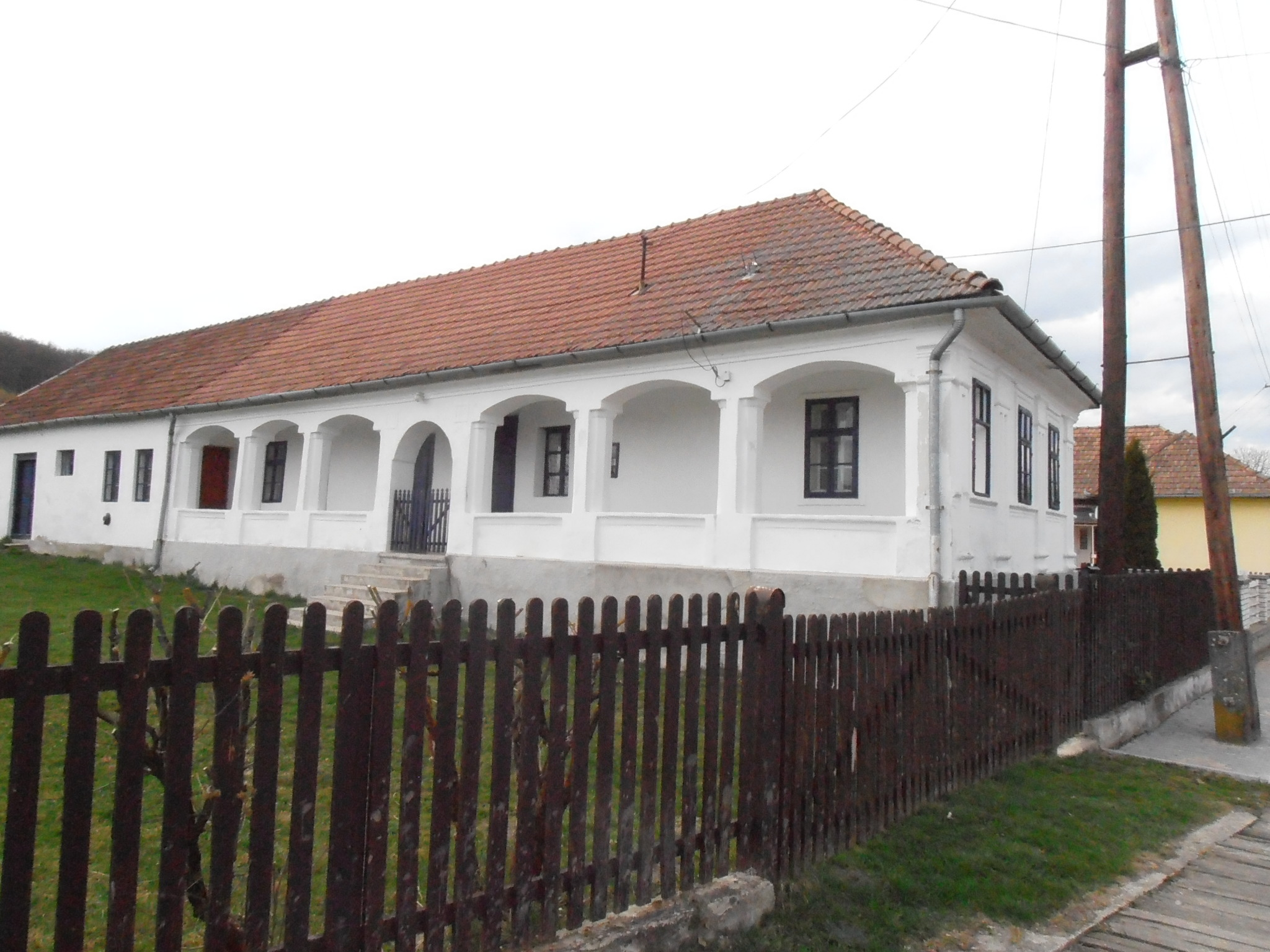 Old house in Gömörszőlős, Hungary This is a photo of a monument in Hungary, Identifier: 2781